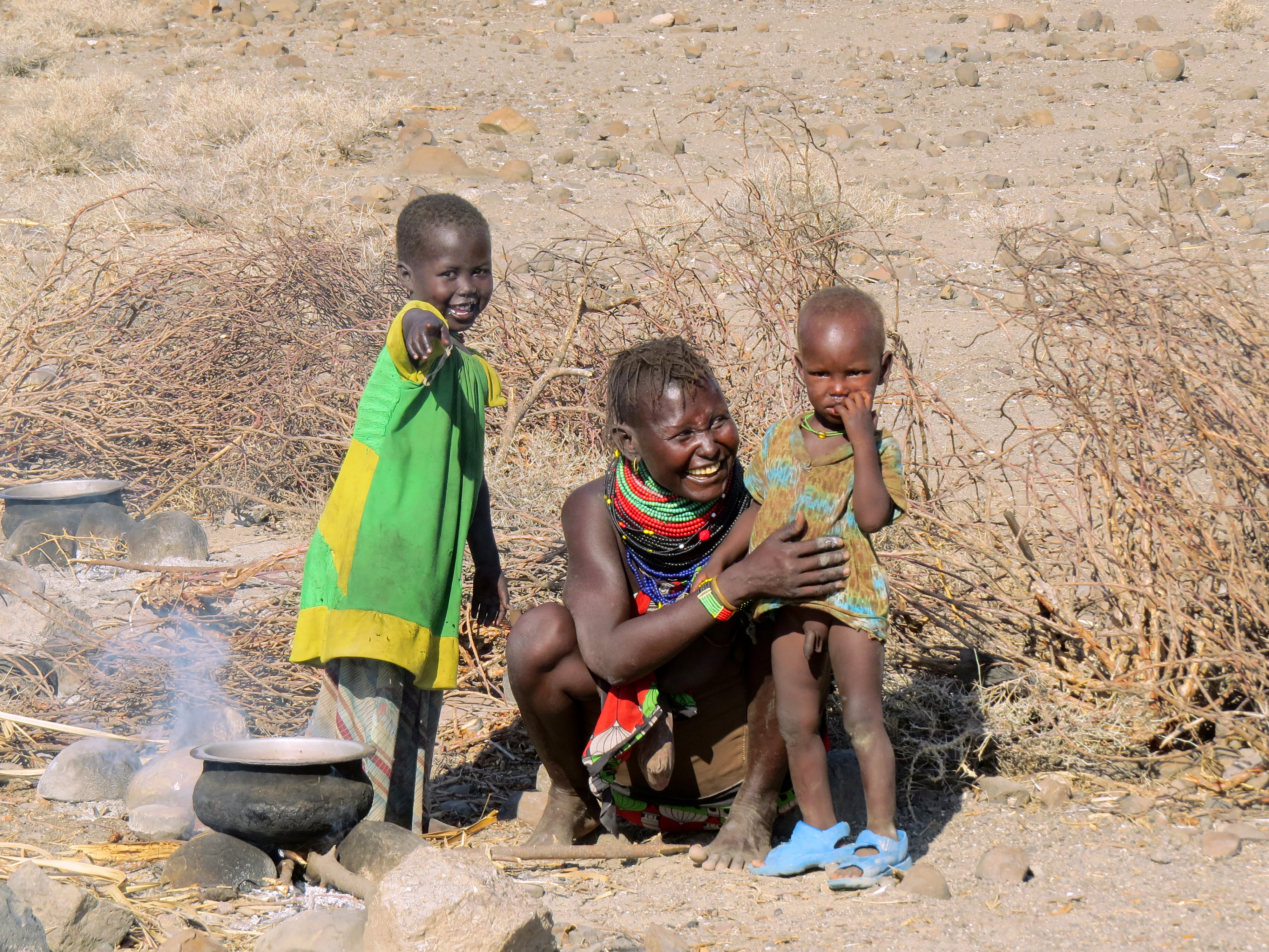 Motherhood: Africa's most common occupation. I came across this woman in the deep bush west of Lake Turkana while photographing an eclipse. The evening meal, likely a porridge made of maize and a few other ingredients, was on the fire. This is an image of "African people at work" from Kenya